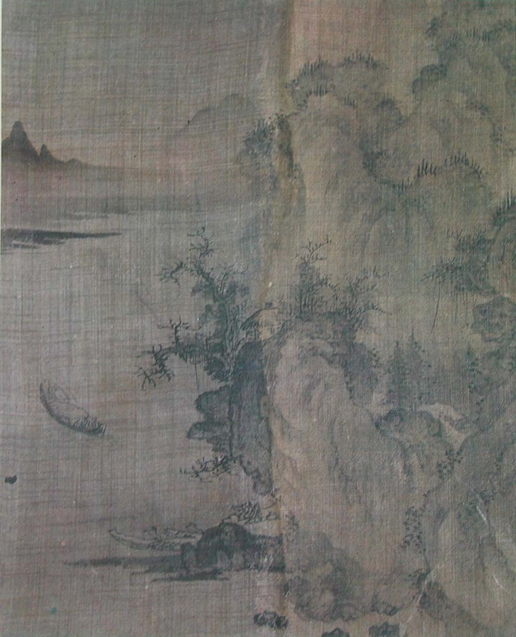 sasipalgyeongdo is a collection of eight paintings that depict the eight seasons of a mountain and water landscape